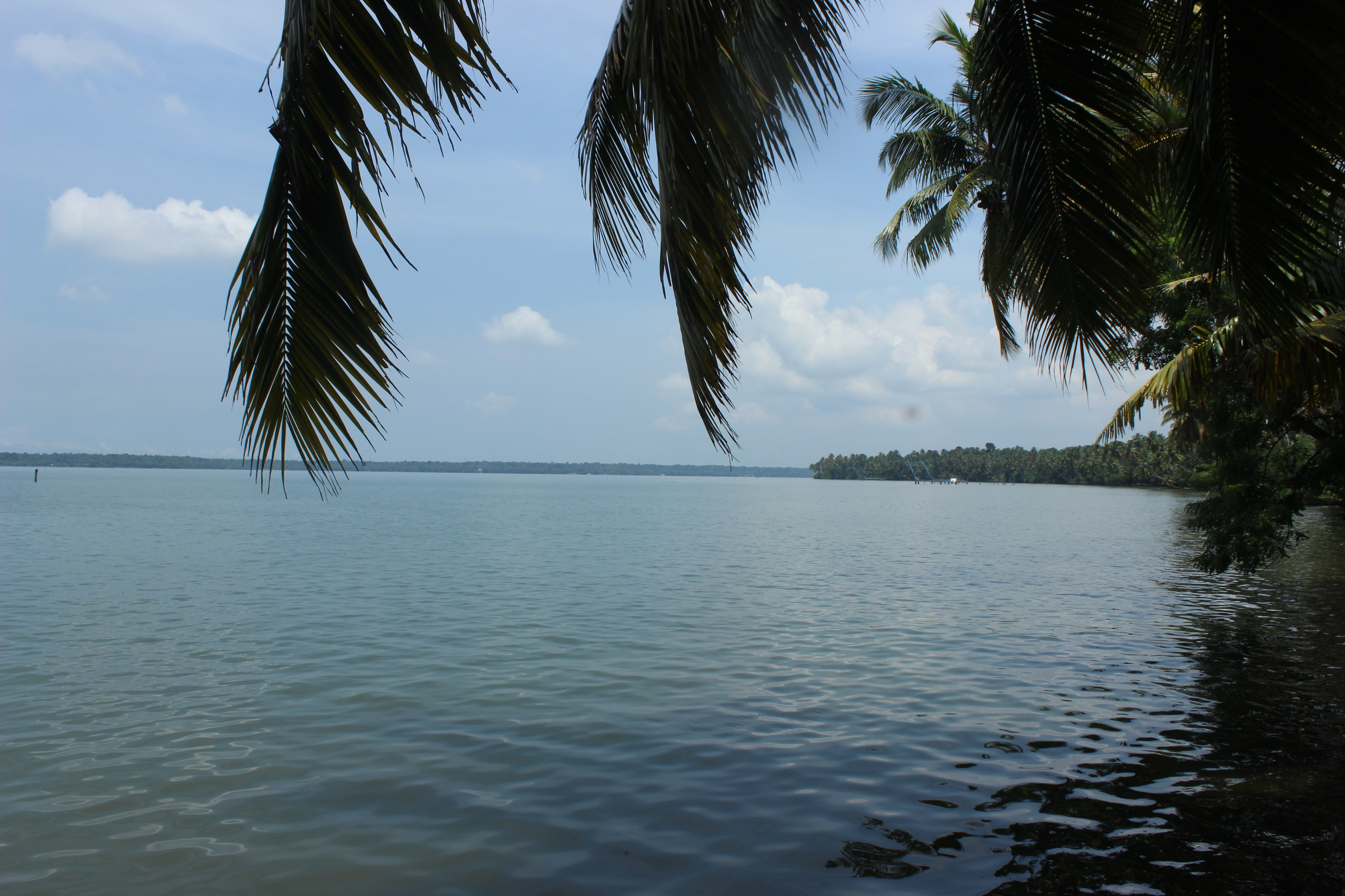 Ashtamudi Lake (Ashtamudi Kayal), in the Kollam District of the Indian state of Kerala, is the most visited backwater and lake in the state. It possesses a unique wetland ecosystem and a large palm-shaped (also described as octopus-shaped) water body, second only in size to the Vembanad estuary ecosystem of the state. Ashtamudi means 'eight coned' (Ashta : 'eight'; mudi : 'coned') in the local Malayalam language. The name is indicative of the lake's topography with its multiple branches. The lake is also called the gateway to the backwaters of Kerala and is well known for its houseboat and backwater resorts.[1][2][3] Ashtamudi Wetland was included in the list of wetlands of international importance, as defined by the Ramsar Convention for the conservation and sustainable utilization of wetlands